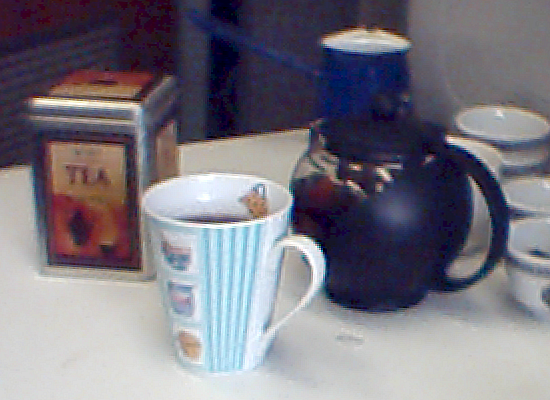 Nice cup of tea, teapot, and tea-tin. Rotated, cropped and slightly sharpened rendition of previous version.